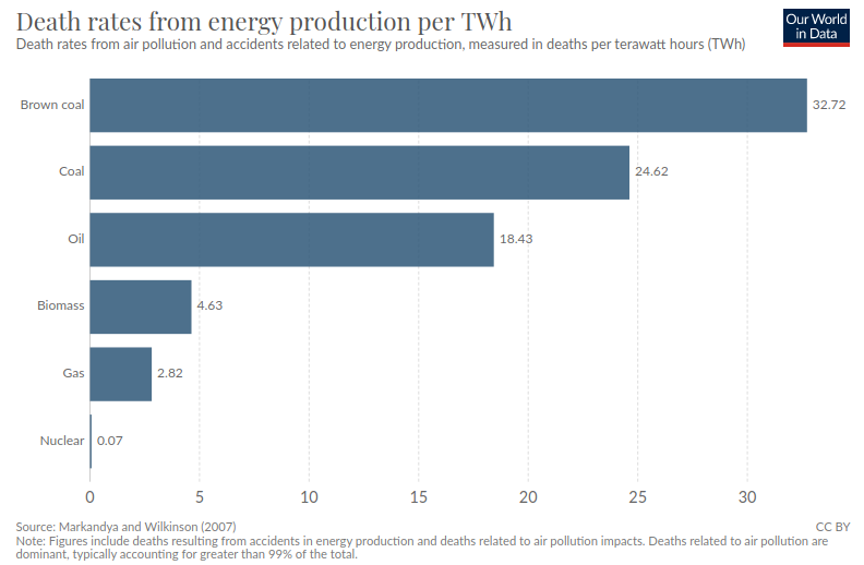 Death rates from air pollution and accidents related to energy production, measured in deaths per terawatt hours (TWh)